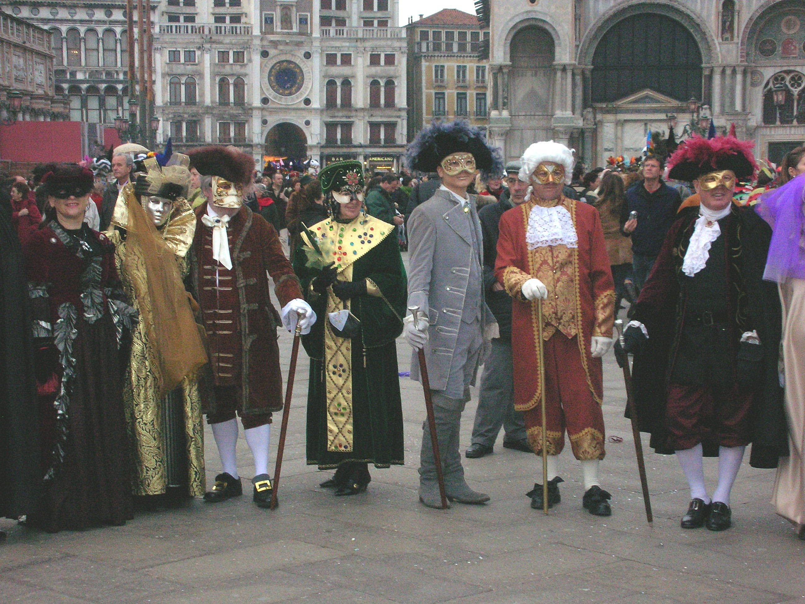 Carnival of Venice, Feb. 2007.